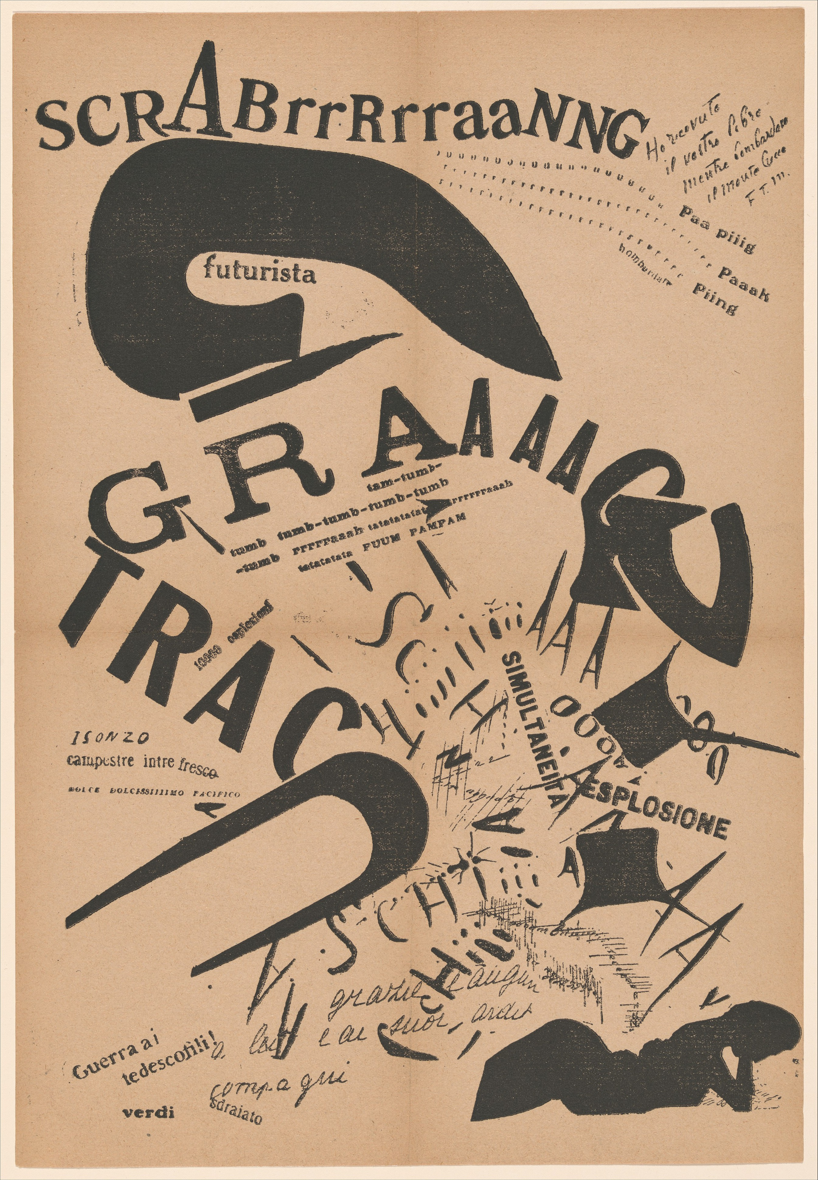 Print; Prints